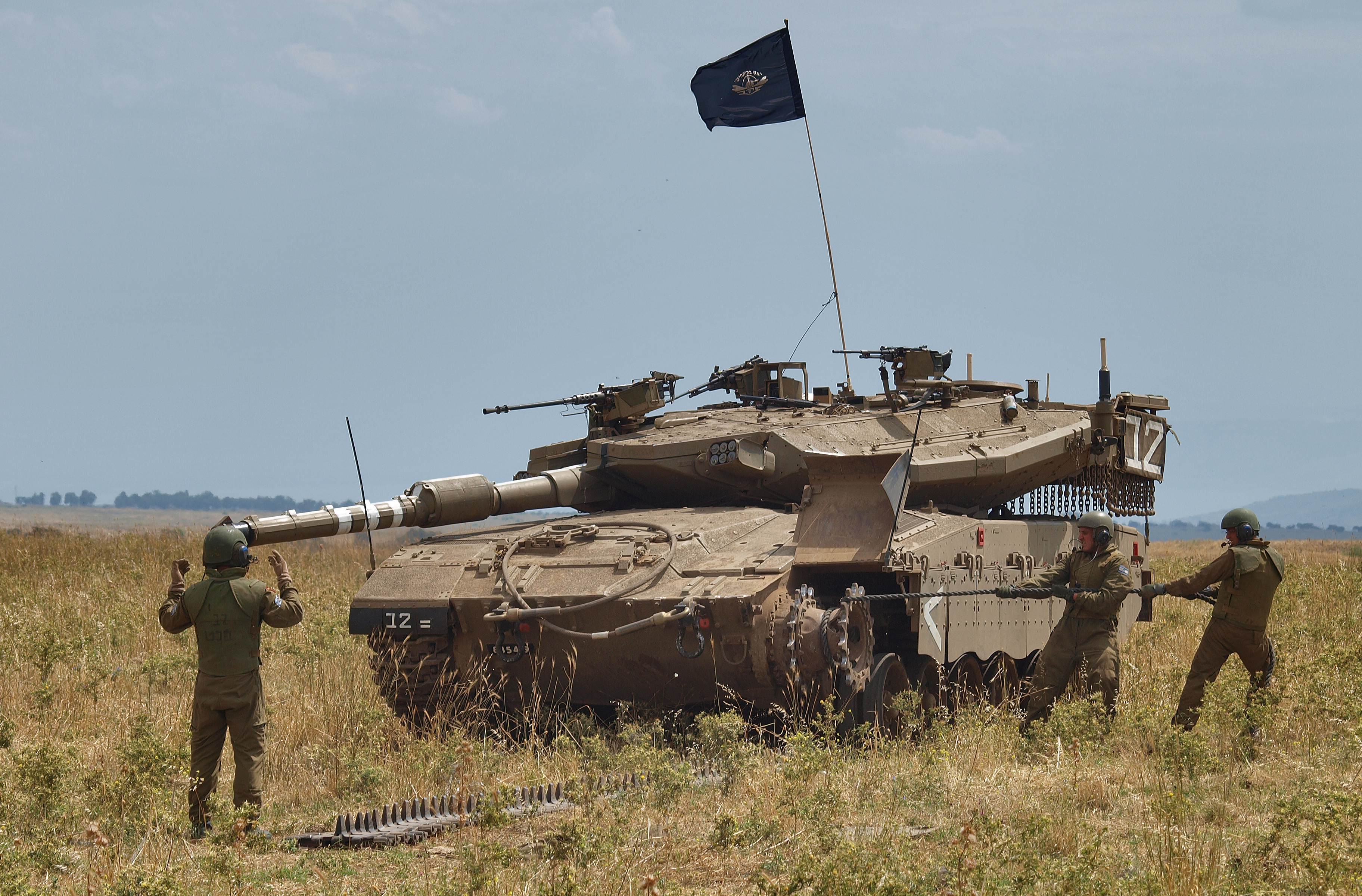 Merkava Mk III tank